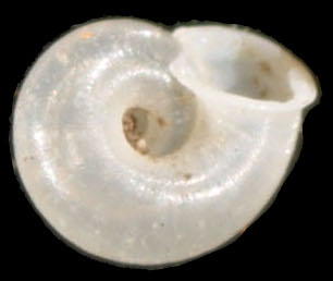 Photo of shell of Vallonia pulchella. Locality: Germany: Germany: Schleswig-Holstein, Unterlauf Kronsbek. Date: 3 March 1952.